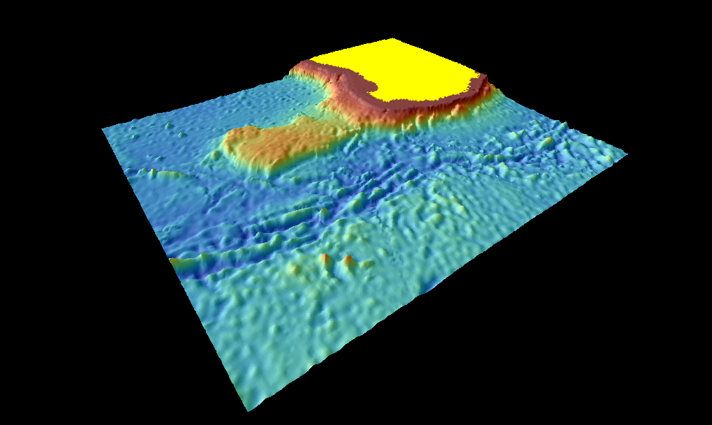 Naturaliste Plateau off southwest Australia